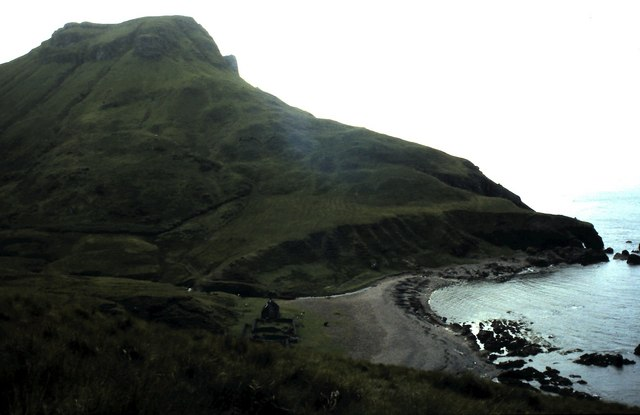 Bloodstone Hill. View looking over Guirdil Bay towards Bloodstone Hill. There is another fine bothy renovated by the Mountain Bothies Association at the back of the beach at Guirdil.Pebbles of bloodstone,green flecked with red spots, also known as heliotrope, can be found on the beach.This is a remote location difficult of access & exposed to Atlantic storms.